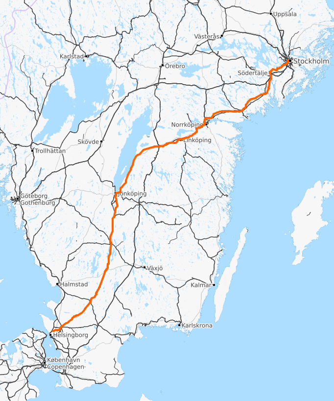 Rikväg 1's route